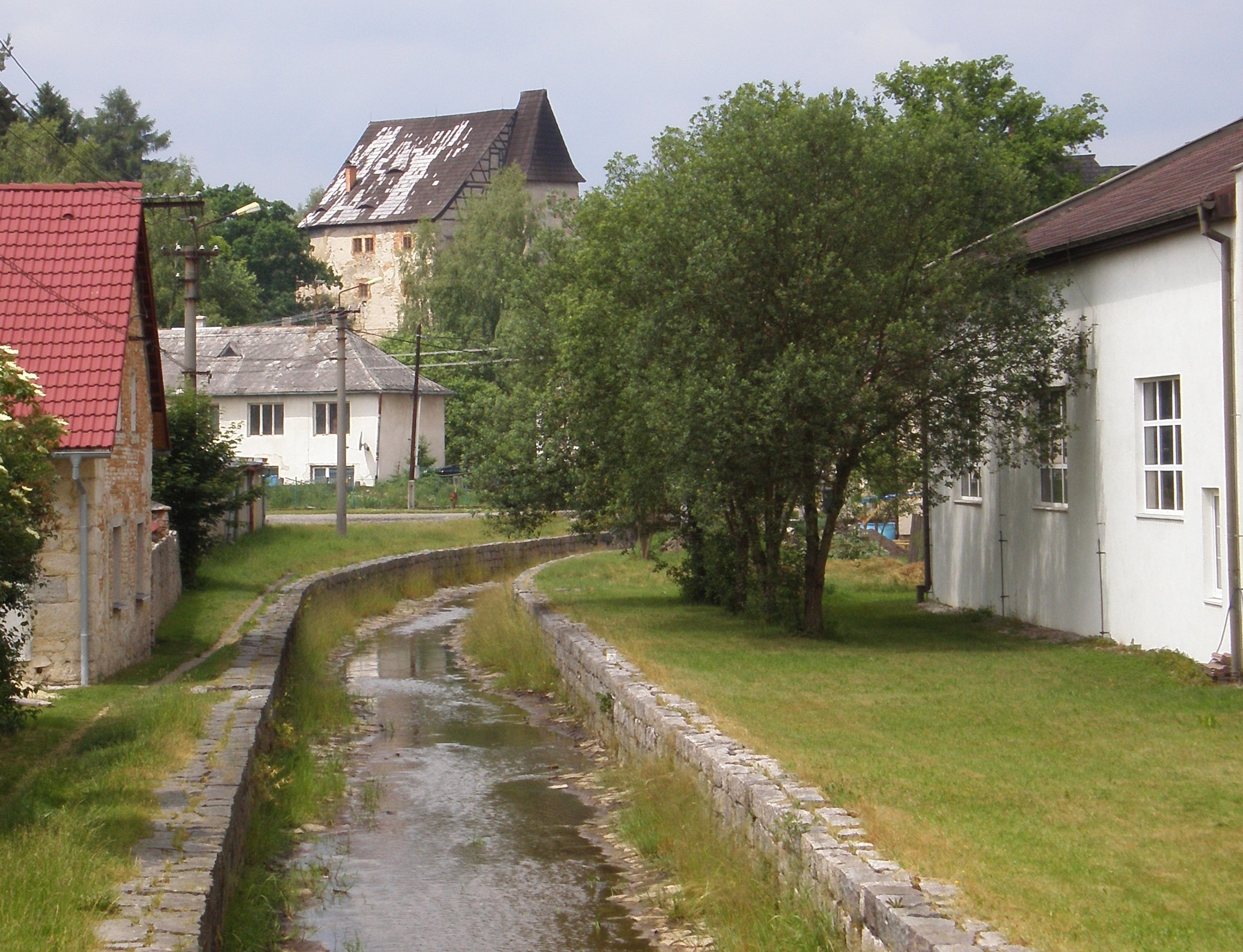 Sázek stream, Skalná, Czech Republic